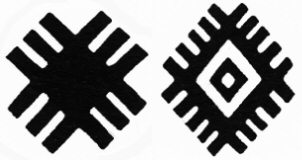 Burdock Kilim Motifs (Turkish: Pitrak). The plant is used to ward off the Evil Eye, and, having many flowers, is a symbol of abundance.